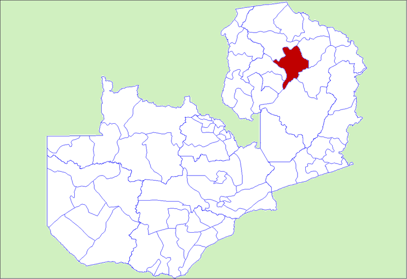 Kasama District, Zambia. Adapted from Rarelibra's work in Wikimedia Commons.